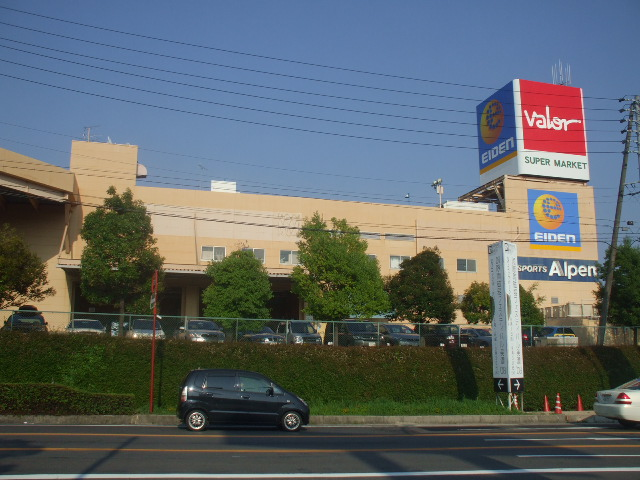 Eva Shopping Center on City Tajimi,Gifu